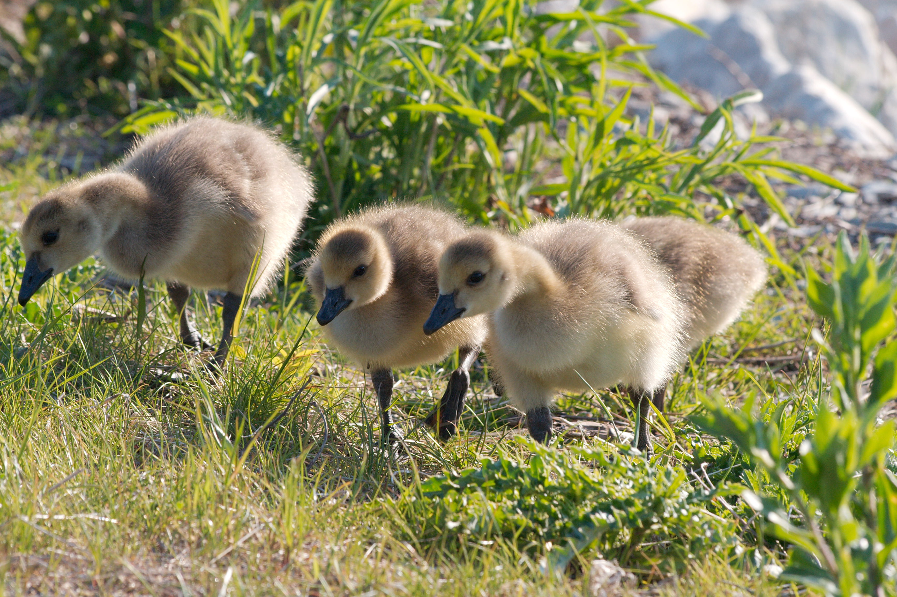 Three canadian gosling (branta canadensis), taken in Milwaukee, Wisconsin